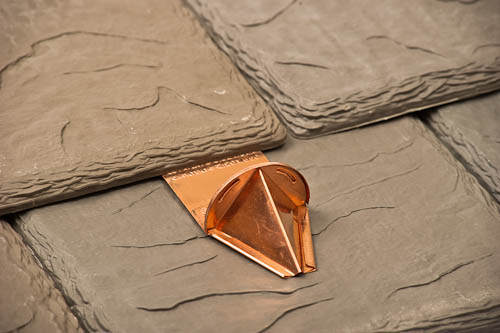 Copper Rocky Mountain Snow Guards on DaVinci Synthetic Slate Roof.